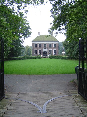 The castle Ennemaborg in Groningen, the Netherlands.